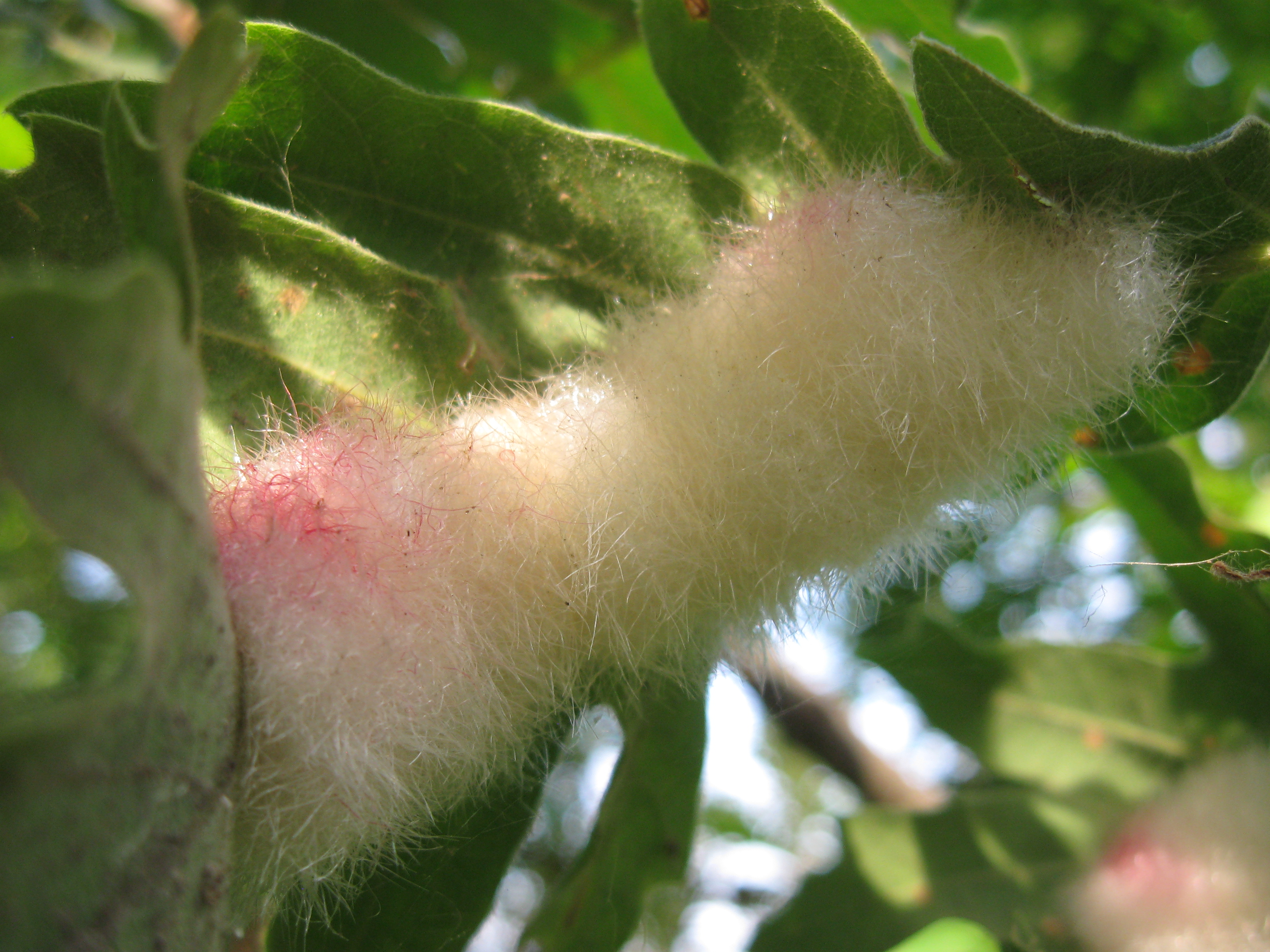 A pupa is the life stage of some insects undergoing transformation, In the forests of Stepanavan, Lori Province.